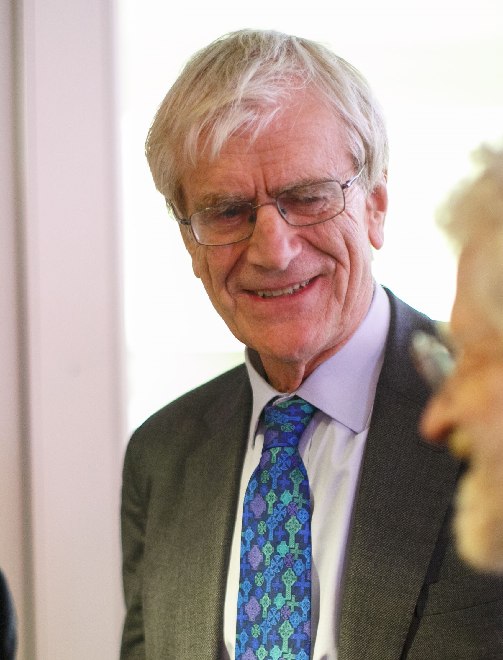 Pictured is Chancellor, University of Warwick, Sir Richard Lambert, Permanent Secretary, Martin Donnelly, Peter Mandelson and Senior Fellow, The King's Fund, Nick Timmins.